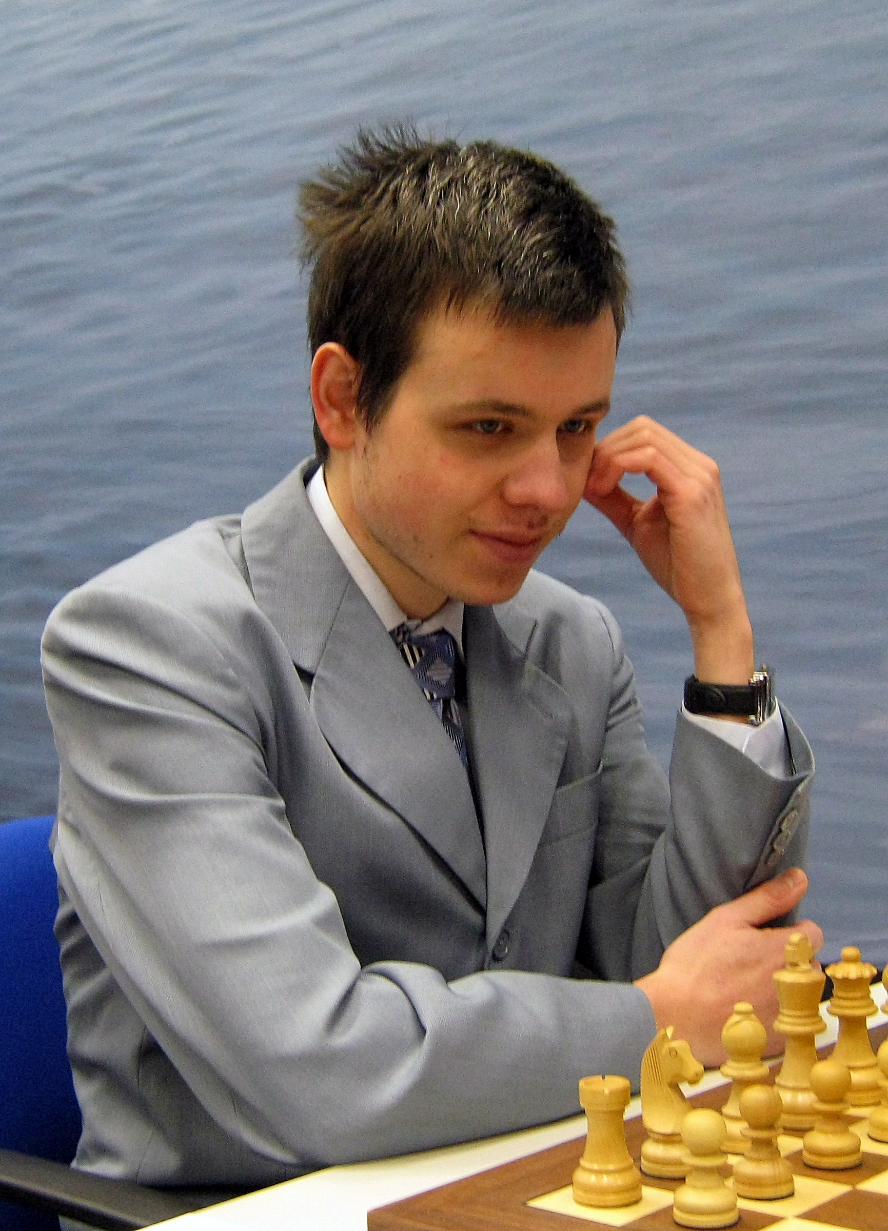 David Navara, chess grandmaster from the Czech Republic